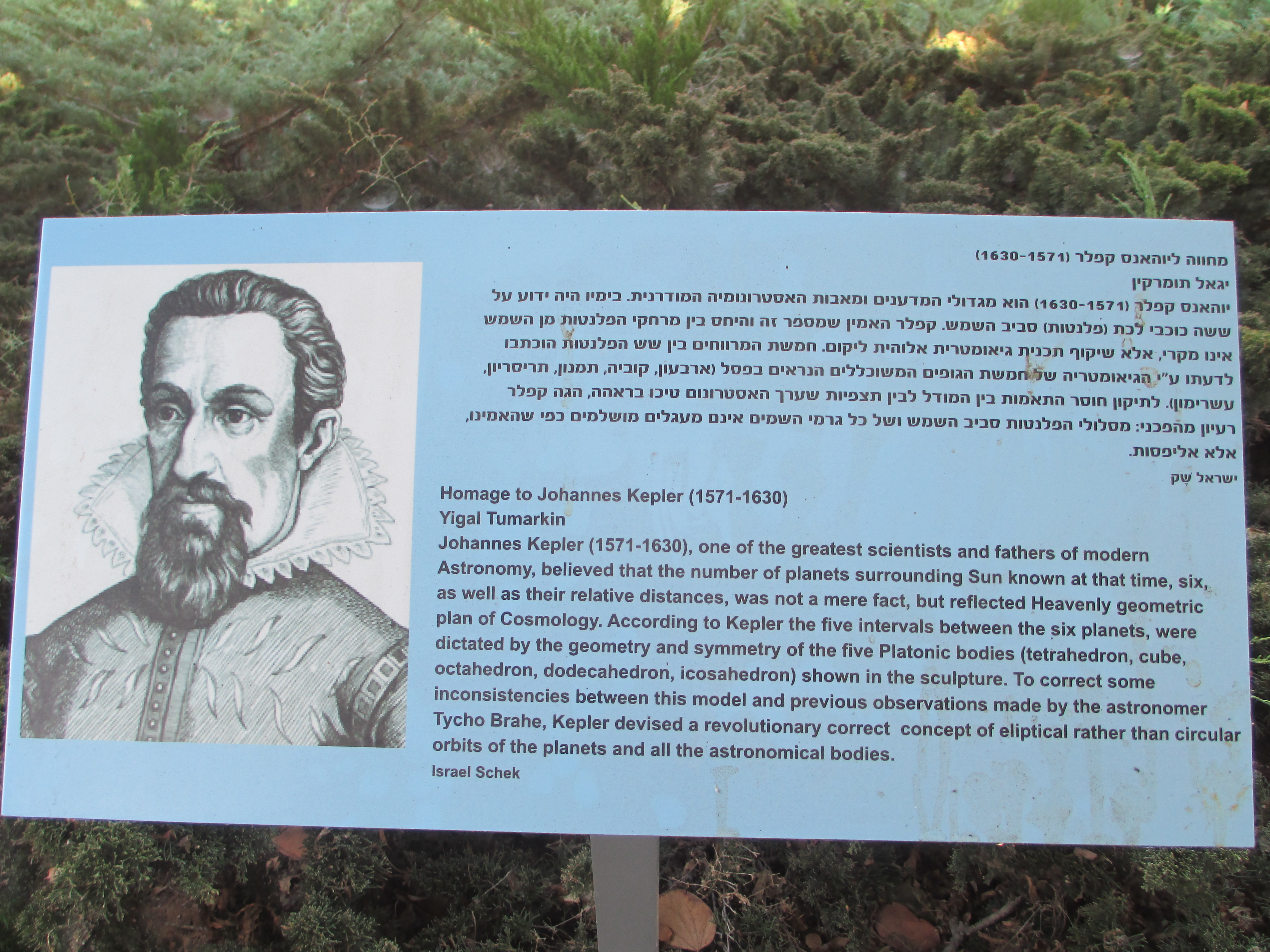 מחווה ליוהנס קפלר באוניברסיטת תל אביב